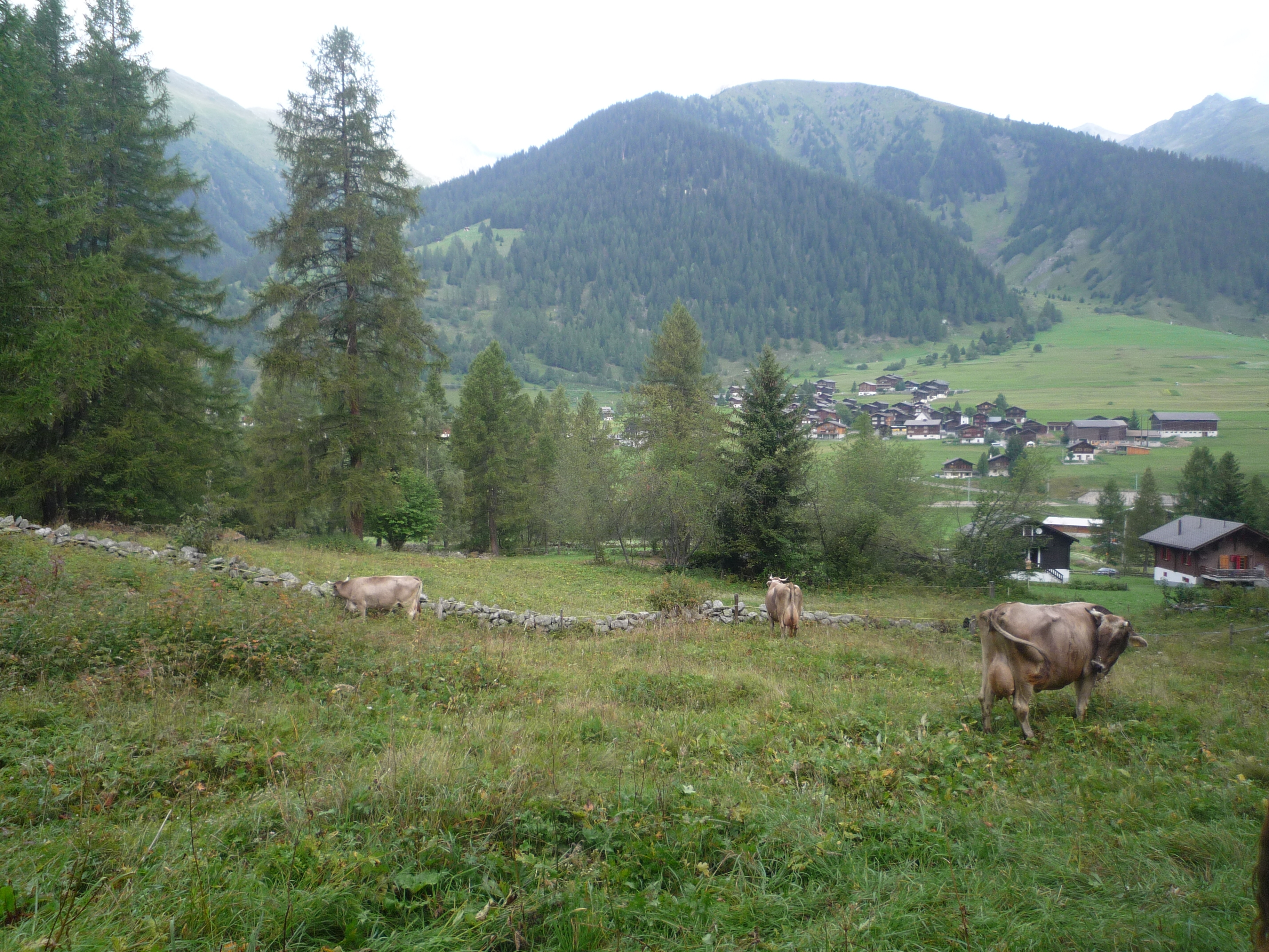 Hillside and village of Reckingen in Reckingen-Gluringen, Valais, Switzerland